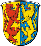 Coat of Arms of Waldbrunn